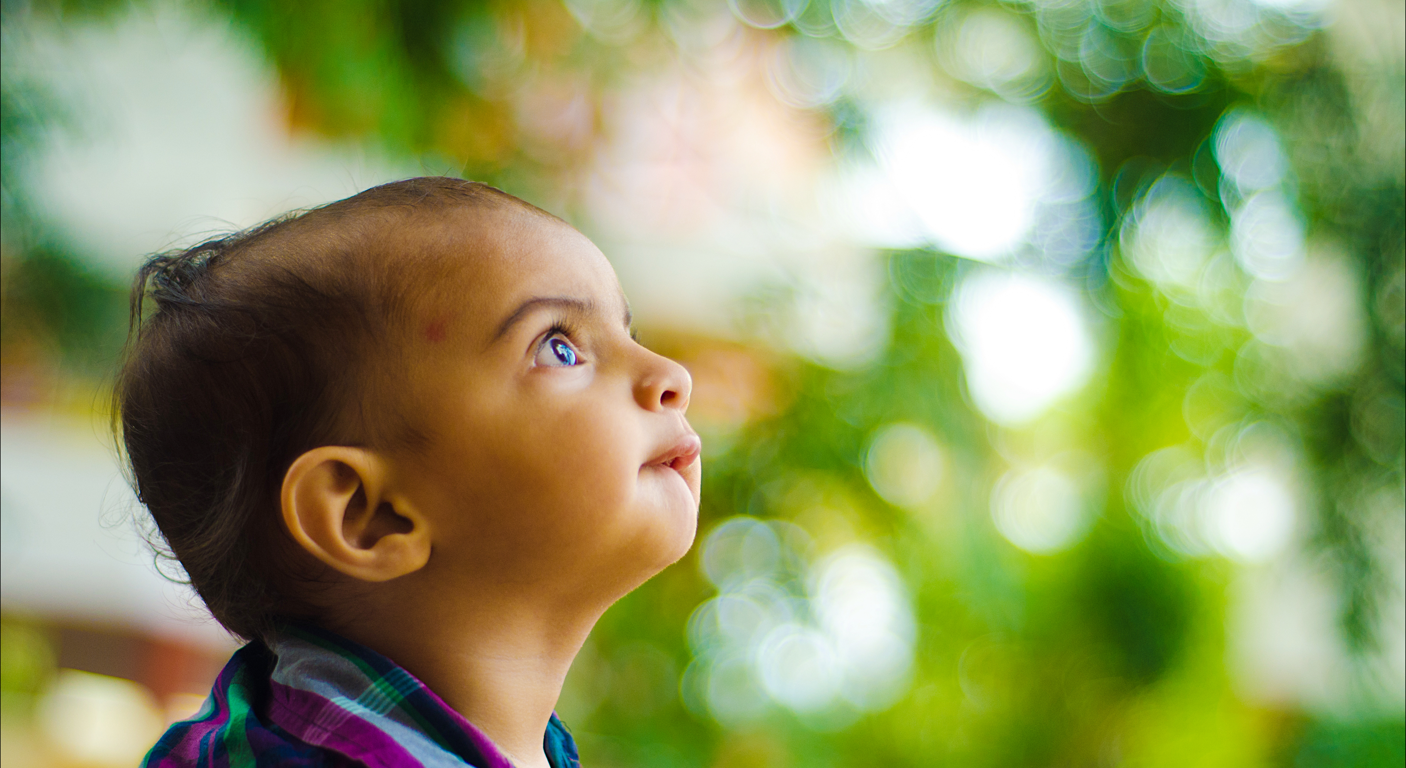 Image with bokeh in background.Taken with 50mm , f1.8 lens